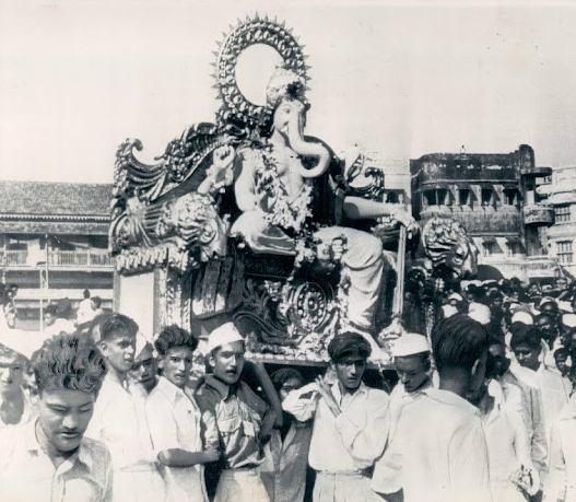 Hindu Idol God Of Fortune Ganesh Parade Through Bombay in 1946